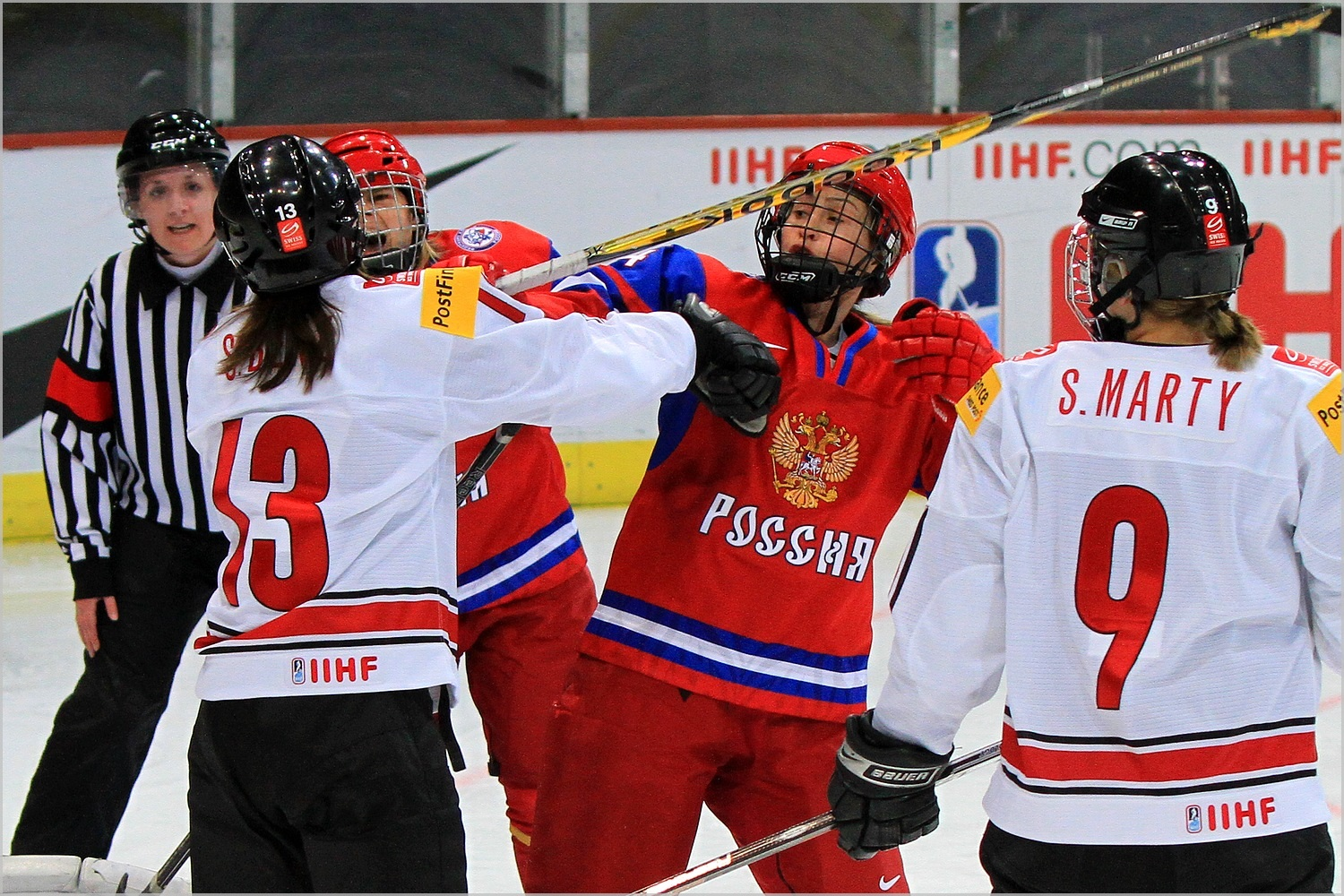 IIHF World Women Championship 2011. Quarterfinal Switzerland - Russia 4-5 OT